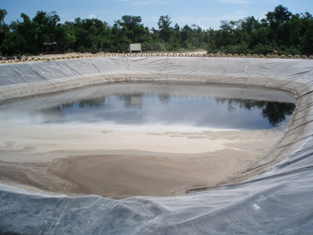 Pond used for leachate evaporation. Municipal landfill. Leachate